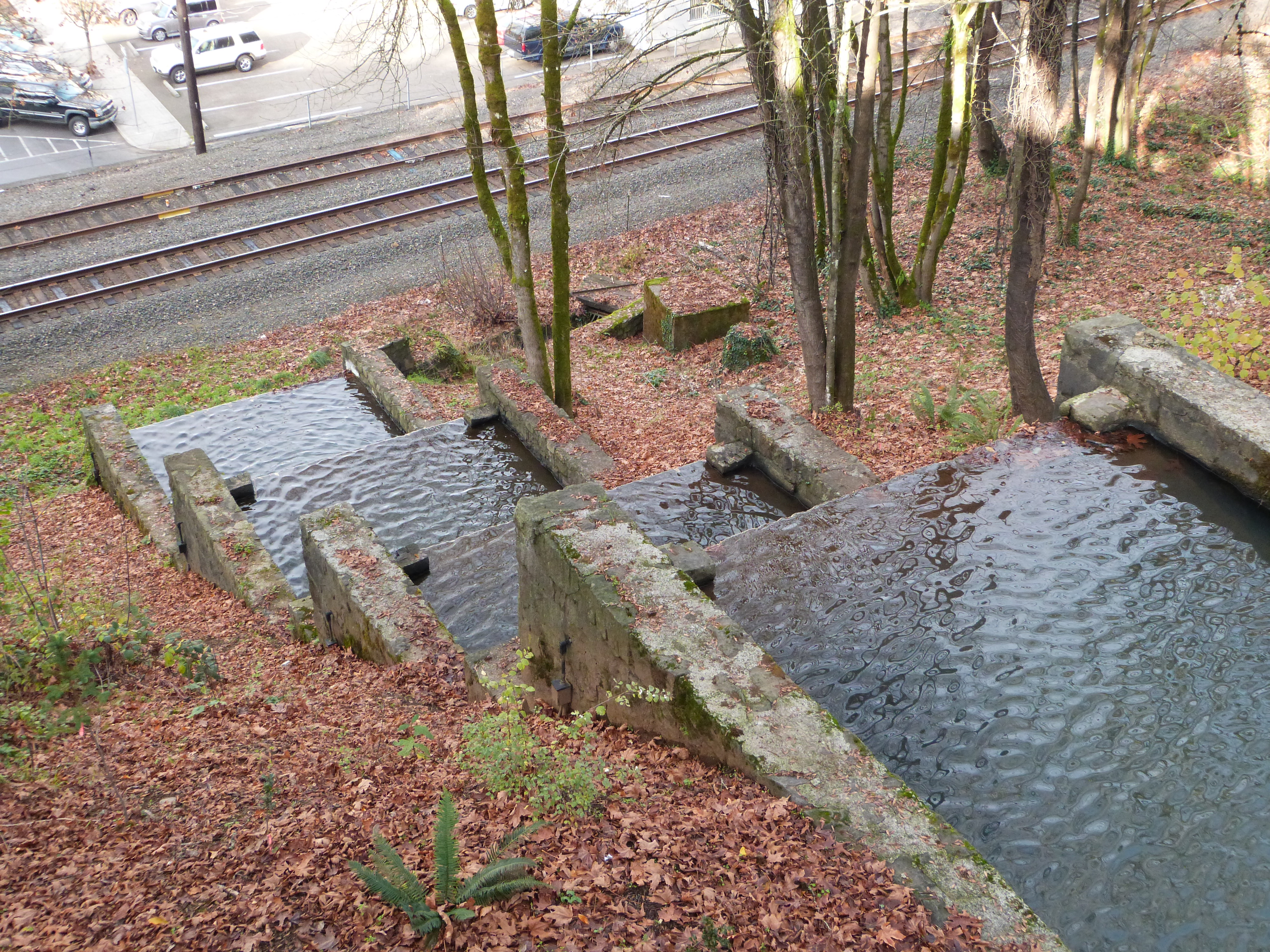 Singer Creek from the Grand Staircase on the historic McLoughlin Promenade in Oregon City, Oregon, United States.